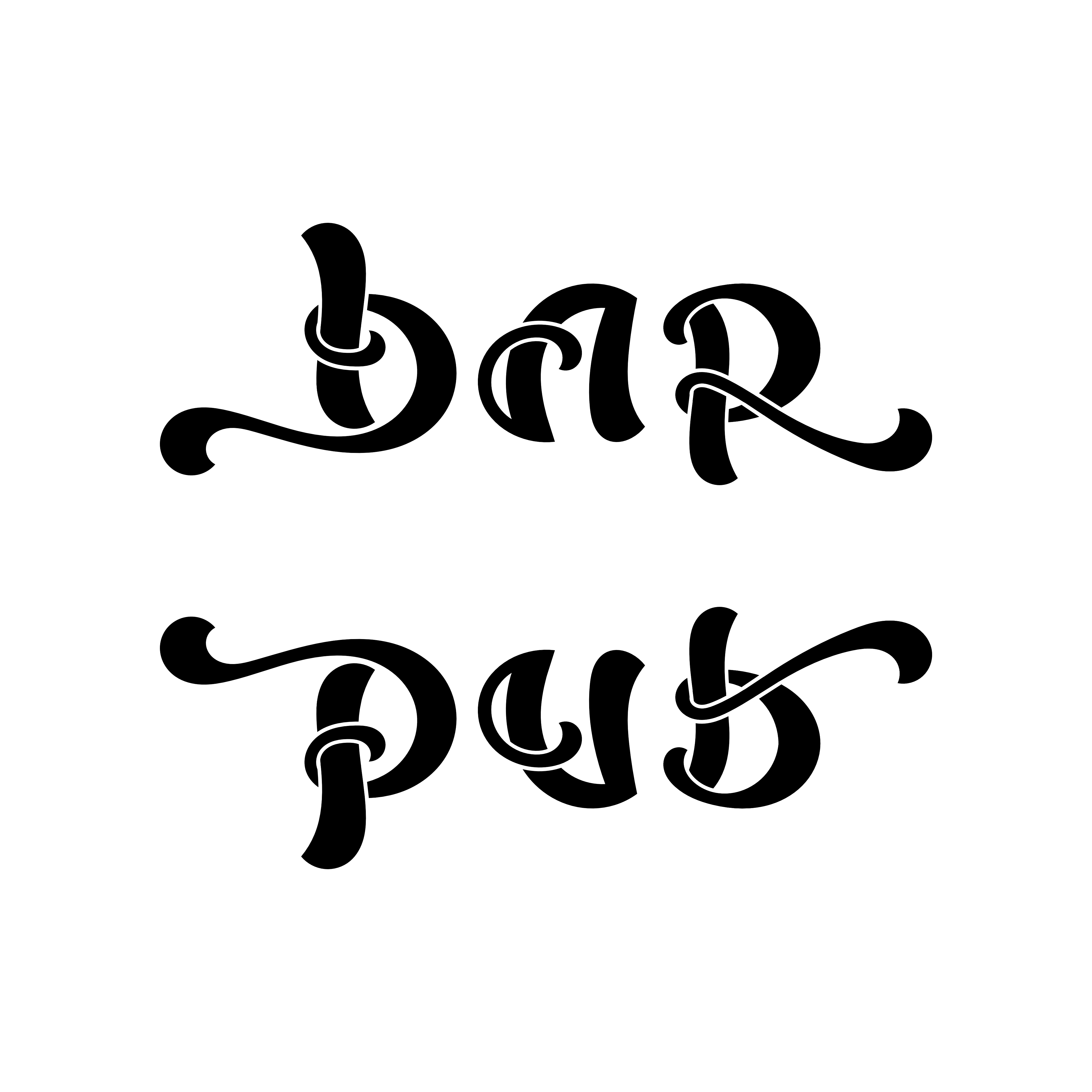 Ambigram bar / pub. Mirror symmetry (horizontal axis).